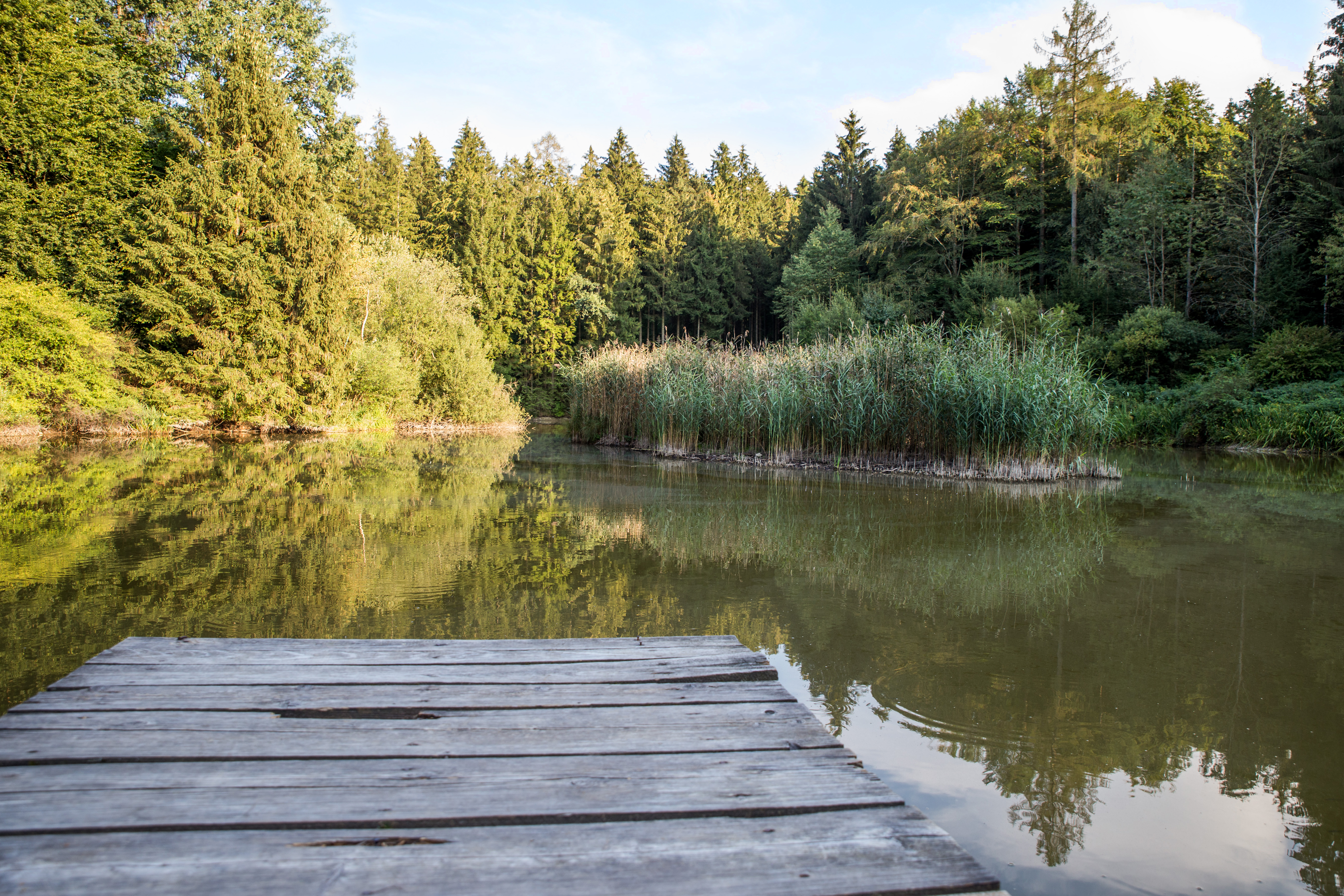 Antoni Weiher in the nature reserve "Ebersberger and Großhaager Forst"